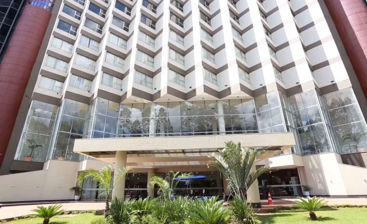 Gran Nobile Hotel in Km 7, Ciudad del Este